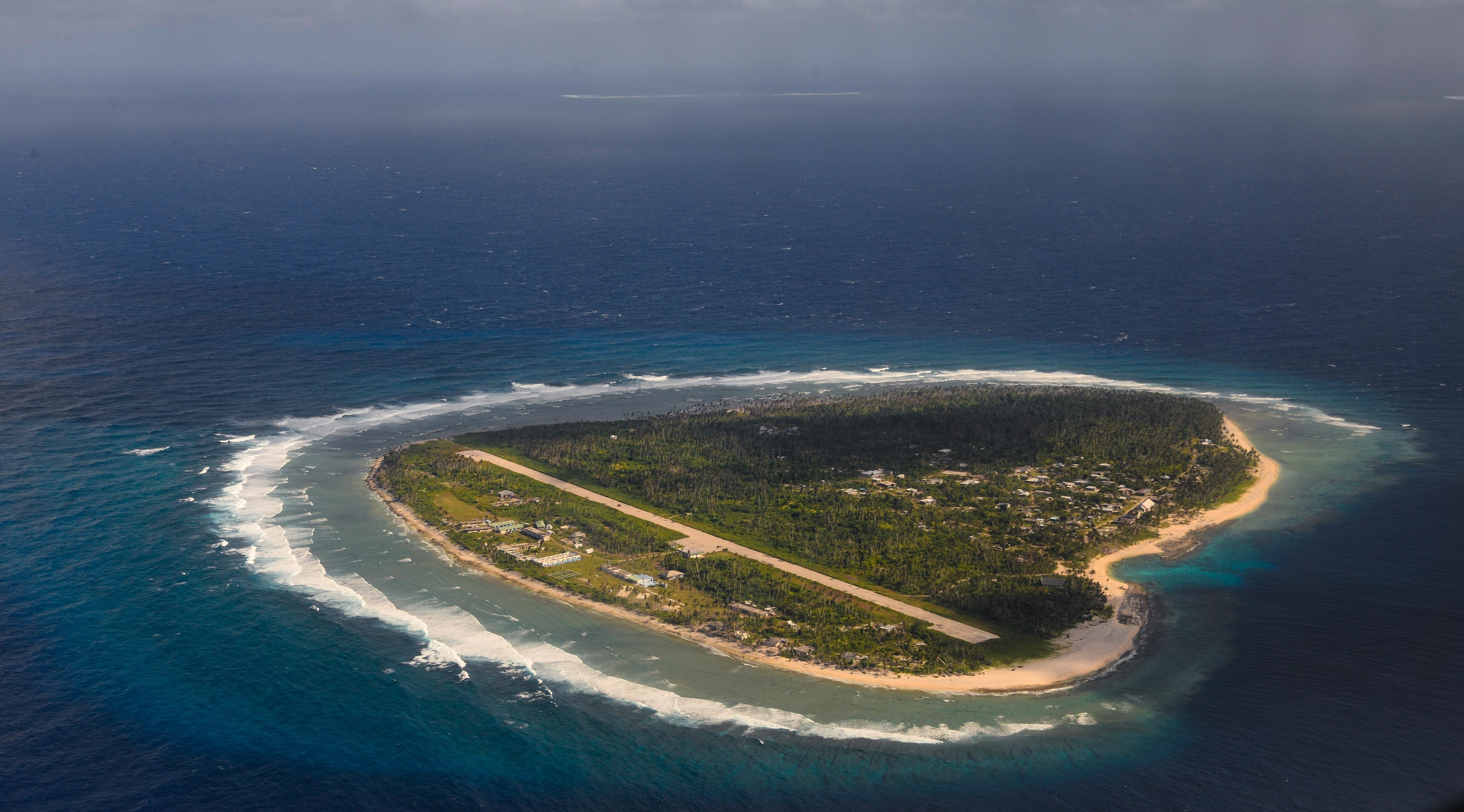 The Micronesian island of Falalap as viewed from a Japanese C-130 Hercules, Dec. 8, 2015, during Operation Christmas Drop. Falalap is one of more than 50 islands visited by trilateral airlift aircrews from Australia, Japan and the U.S. (U.S. Air Force photo by Staff Sgt. Alexander W. Riedel/Released) Unit: 36th Wing Public Affairs